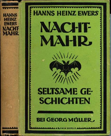 Cover of the edition of 1922 - Nachtmahr Hanns Heinz Ewers (* 3. November 1871 in Düsseldorf; † 12. Juni 1943 in Berlin)